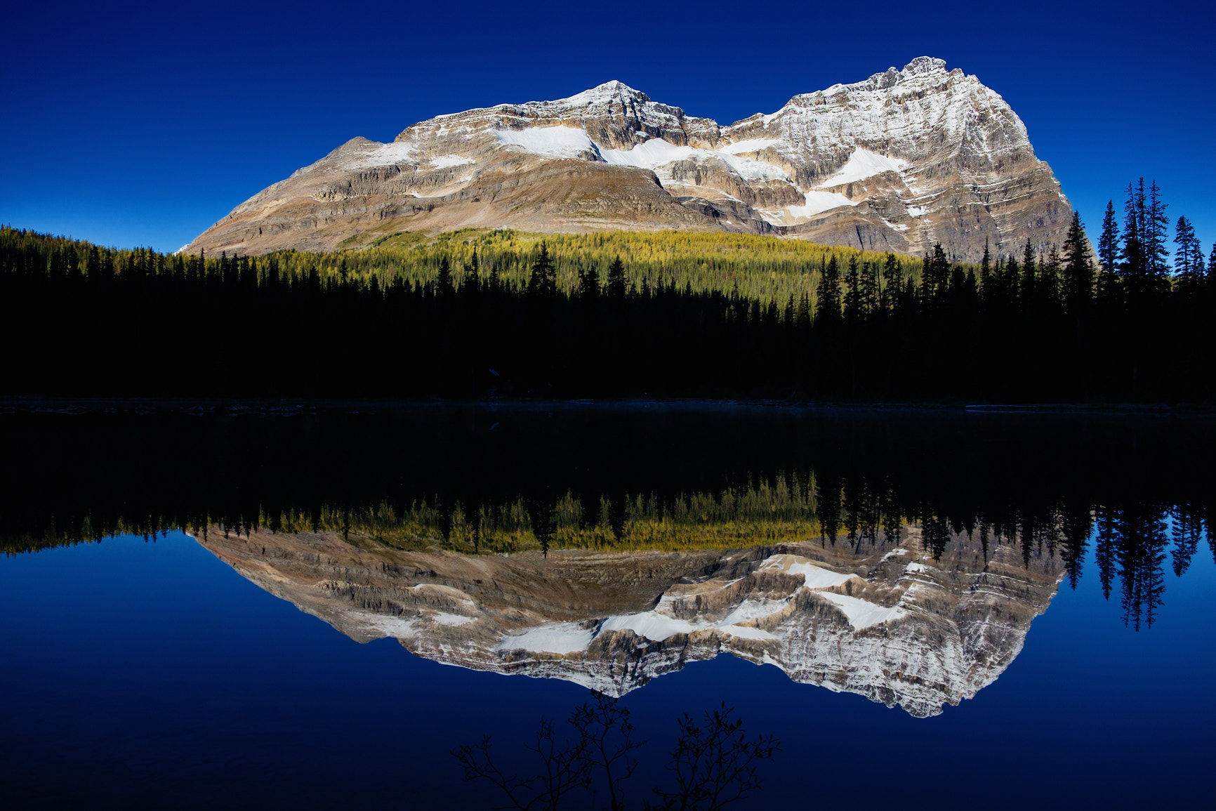 500px provided description: Early morning light on Lake O'Hara showing an incredible reflection of Odaray Mountain [#landscape ,#reflections ,#Canadian Rockies ,#Lake O'Hara ,#Odaray Mountain]